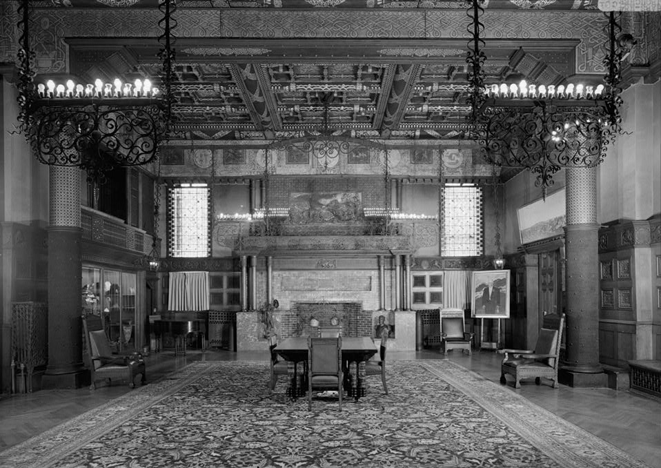 Tiffany Room at the Seventh Regiment Armory in New York City